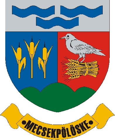 Coat of arms of Mecsekpölöske, Hungary